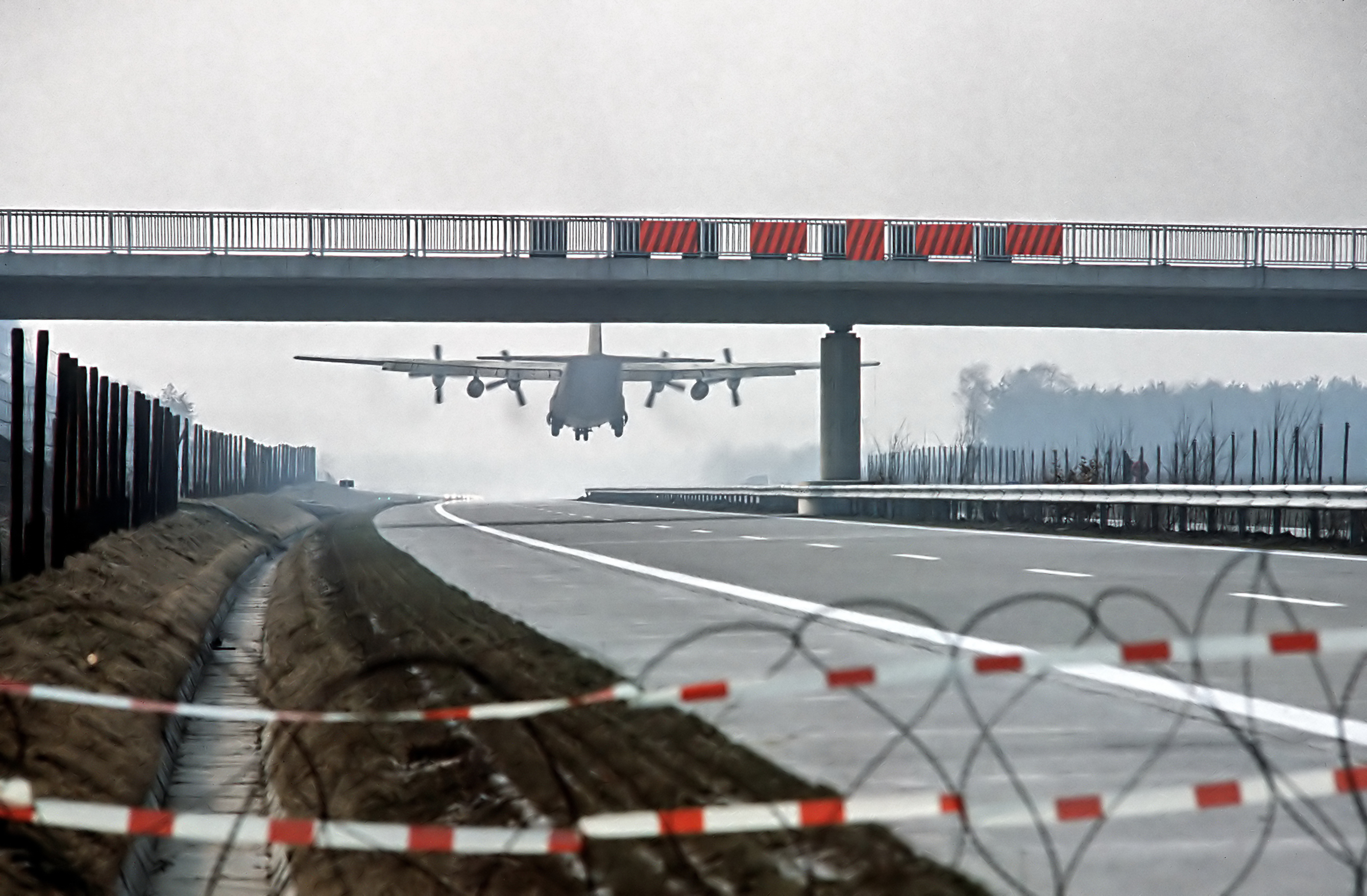 A rear view of a C-130 Hercules aircraft landing on the autobahn A29 near city of Ahlhorn during NATO-exercise "highway 84"